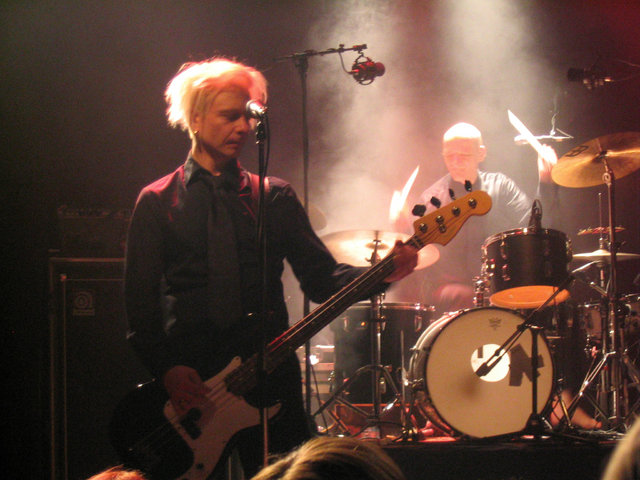 Mr. Kari Nylander (bass) and Mr. Pete Parkkonen (drums) from Zen Café (a Finnish rock band, a trio) at Tavastia Club, Helsinki on 2006-04-16.